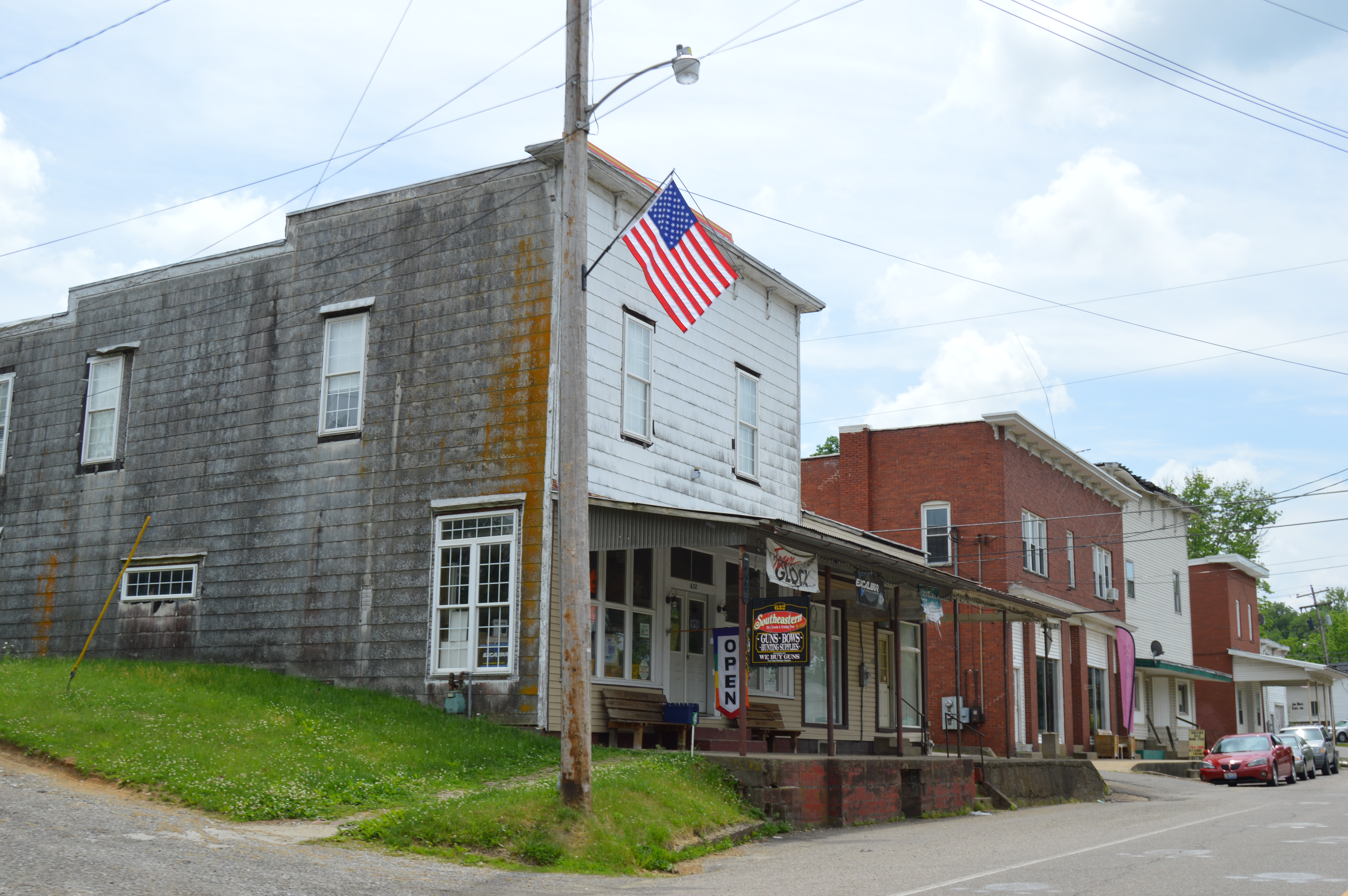 Commercial buildings on the eastern side of Main Street in central Waterford, Ohio, United States.